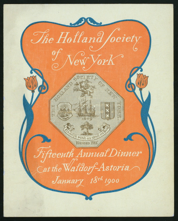 Program for the fifteenth annual dinner of the Holland Society of New York. Held at the Waldorf-Astoria Hotel, New York City, January 18, 1900. Courtesy of the New York Public Library Digital Collection.